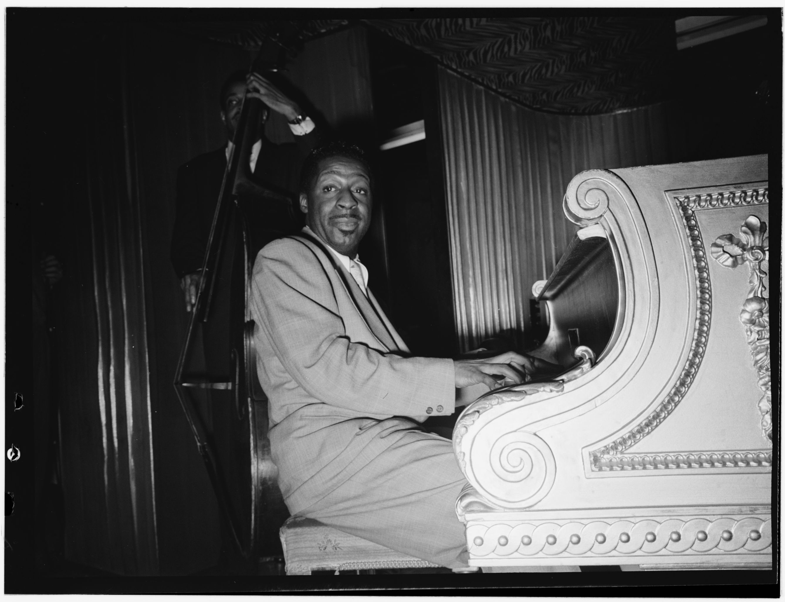 Gottlieb, William P., 1917-, photographer. Erroll Garner, New York, N.Y., between 1946 and 1948] 1 negative : b&w ; 3 1/4 x 4 1/4 in. Notes: Gottlieb Collection Assignment No. 518 Reference print available in Music Division, Library of Congress. Purchase William P. Gottlieb Forms part of: William P. Gottlieb Collection (Library of Congress). Subjects: Garner, Erroll Jazz musicians--1940-1950. Pianists--1940-1950. Double bassists--1940-1950. Format: Portrait photographs--1940-1950. Group portraits--1940-1950. Film negatives--1940-1950. Rights Info: Mr. Gottlieb has dedicated these works to the public domain, but rights of privacy and publicity may apply. Repository: (negative) Library of Congress, Prints & Photographs Division, Washington D.C. 20540 USA, (reference print) Library of Congress, Music Division, Washington D.C. 20540 USA, Part Of: William P. Gottlieb Collection (DLC) 99-401005 General information about the Gottlieb Collection is available at Persistent URL: Call Number: LC-GLB23- 0301